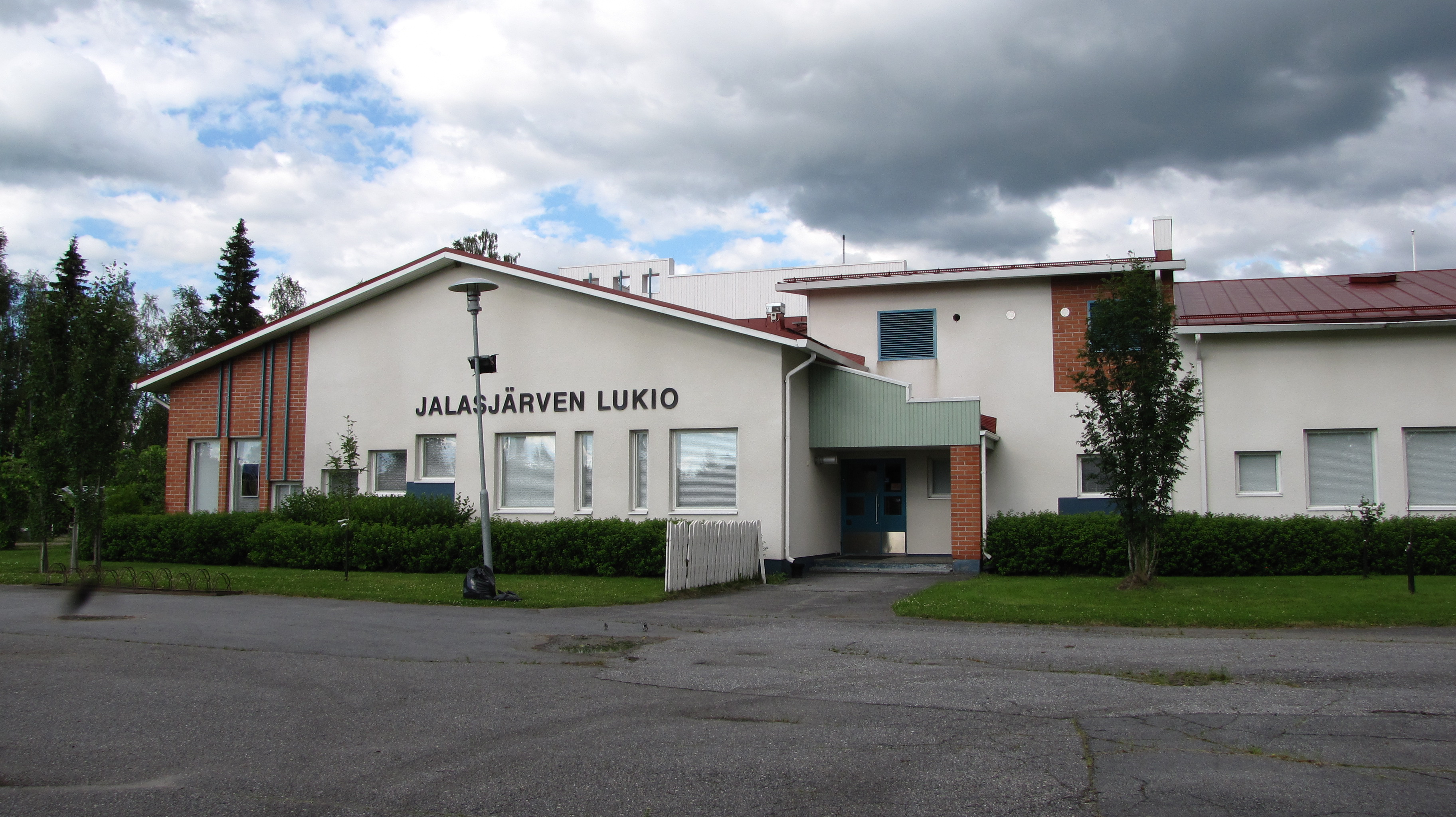 Jalasjärvi senior high school in Jalasjärvi, Finland.